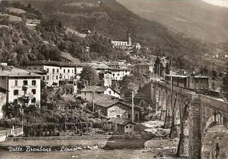 Lenna, rail bridge with a train